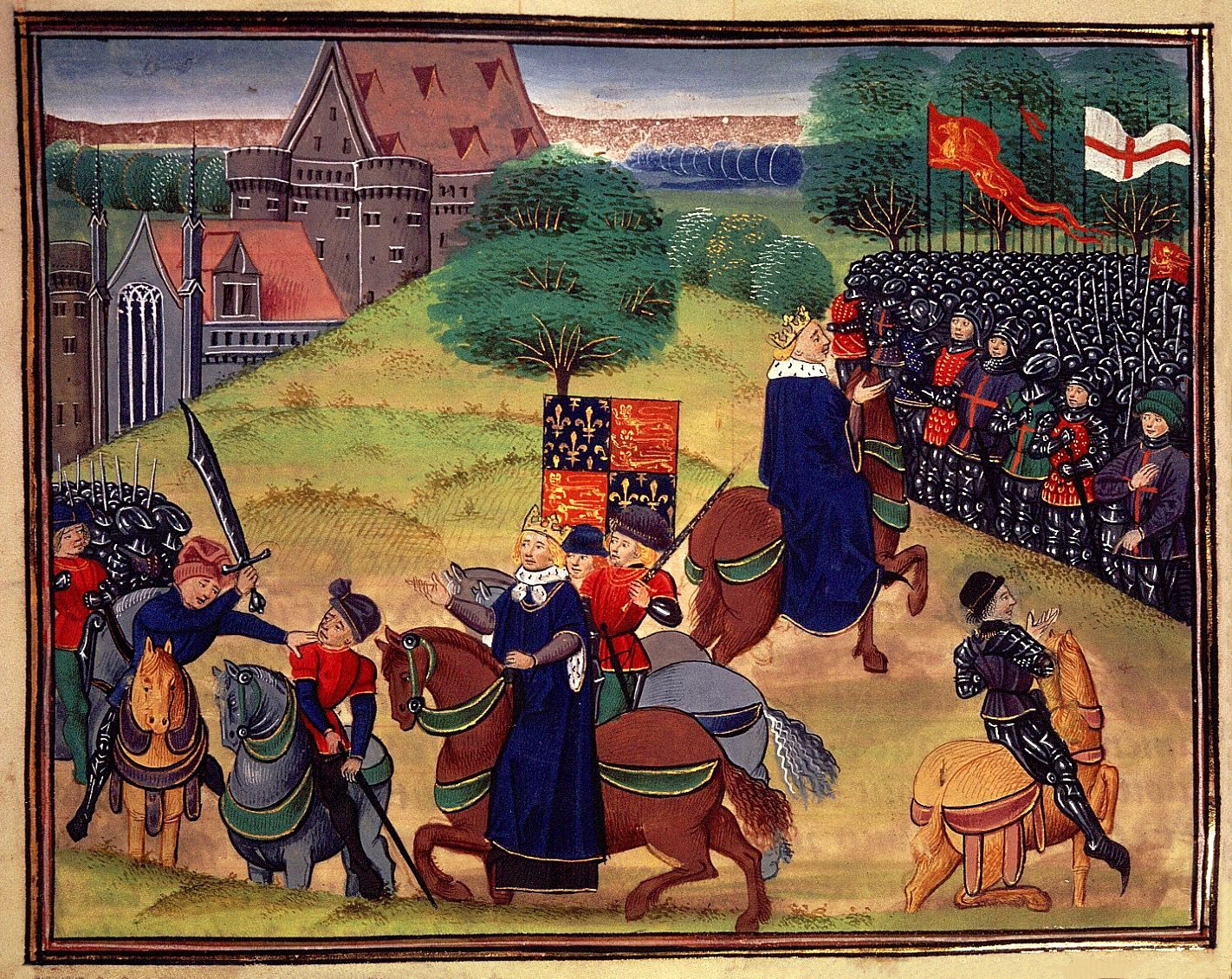 The painting depicts the end of the 1381 peasant's revolt. The image shows London's mayor, Walworth, killing Wat Tyler. There are two images of Richard II. One looks on the killing while the other is talking to the peasants.